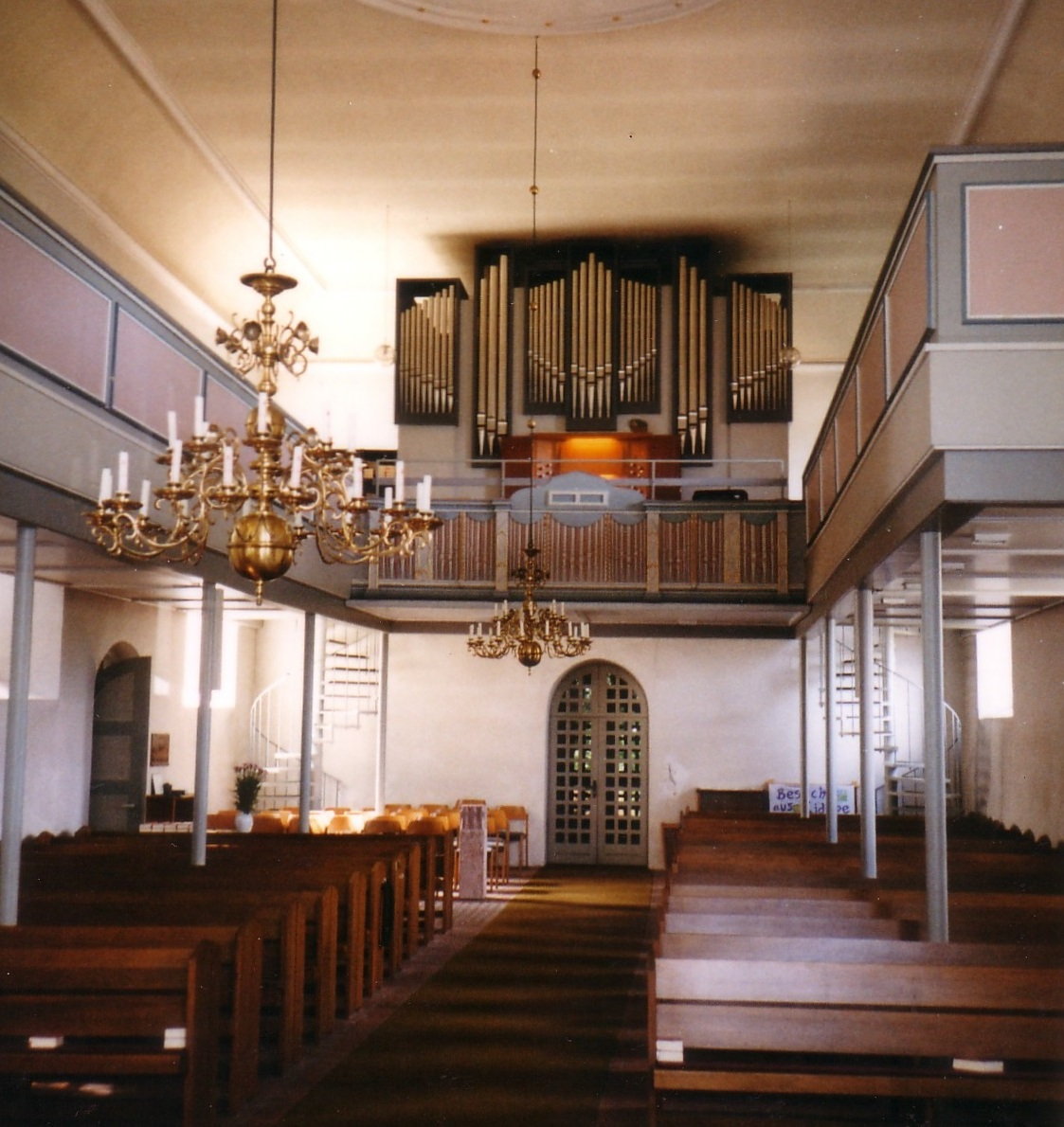 The Marcussen-Kemper organ in the Evangelish-Lutheran church in Curau, Schleswig-Holstein, Germany